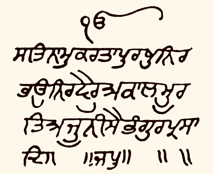 Mool Mantar (mul mantra) are the opening twelve words of the Sikhism scripture shown above. It is in Gurmukhi. The image above is from the 17th-century Kartarpur manuscript, believed by Sikhs to be Guru Arjan Dev handwriting, who gave the Mul Mantar the final form. An alternative theory states that it was dictated by Guru Arjan and written down by his scribe. It is the oldest surviving dated version of Mul Mantar. (To verify this, see Eleanor Nesbitt, Sikhism: A Very Short Introduction, Oxford University Press, pages 36–37) This is a photograph of a 17th-century manuscript and therefore qualifies for 2D-Art licensing guidelines of wikimedia commons. Any rights I have as a photographer, I herewith donate to wikimedia commons under CC4.0 license.